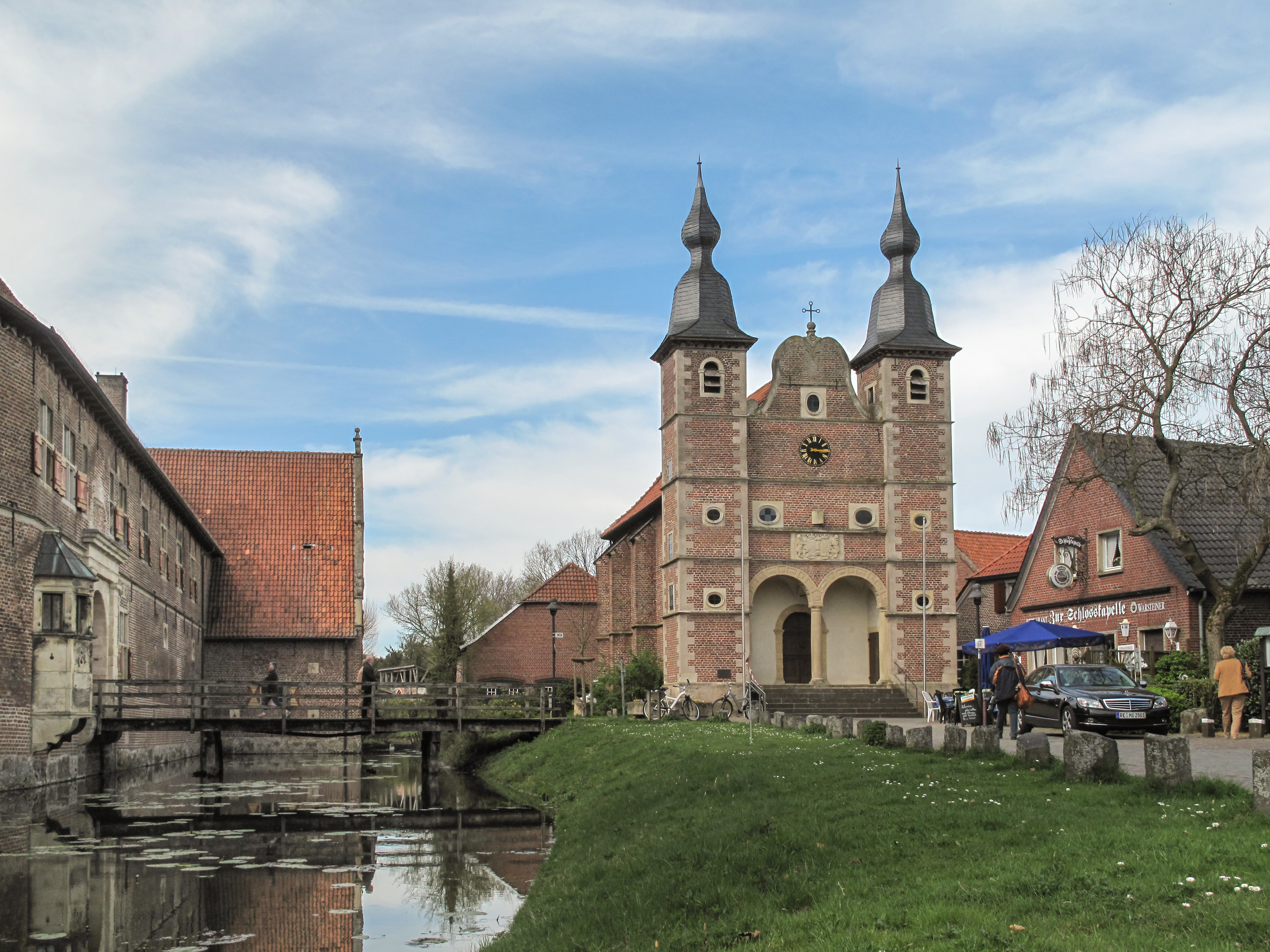 Raesfeld, at castle: Schloss Raesfeld